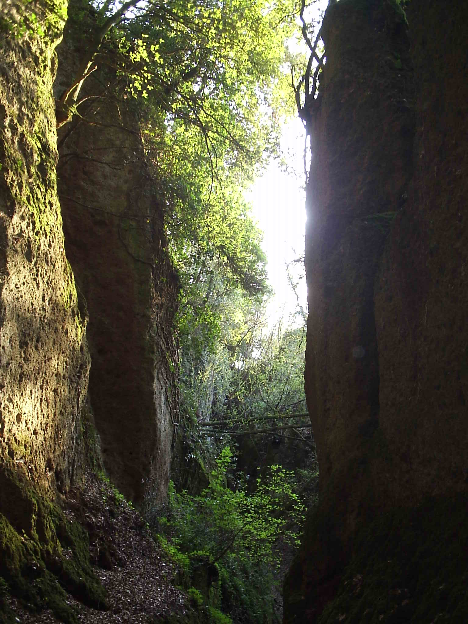 the ancien road of "la massa"